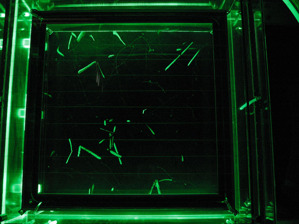 Cloud Chamber at the german Electron Synchrotron DESY